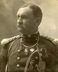 Last formal photo of Erasmus Gilbreath, ca. 1897-1898